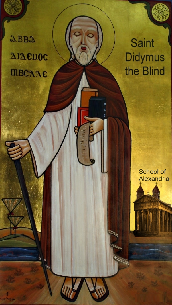 Dydimus the Blind